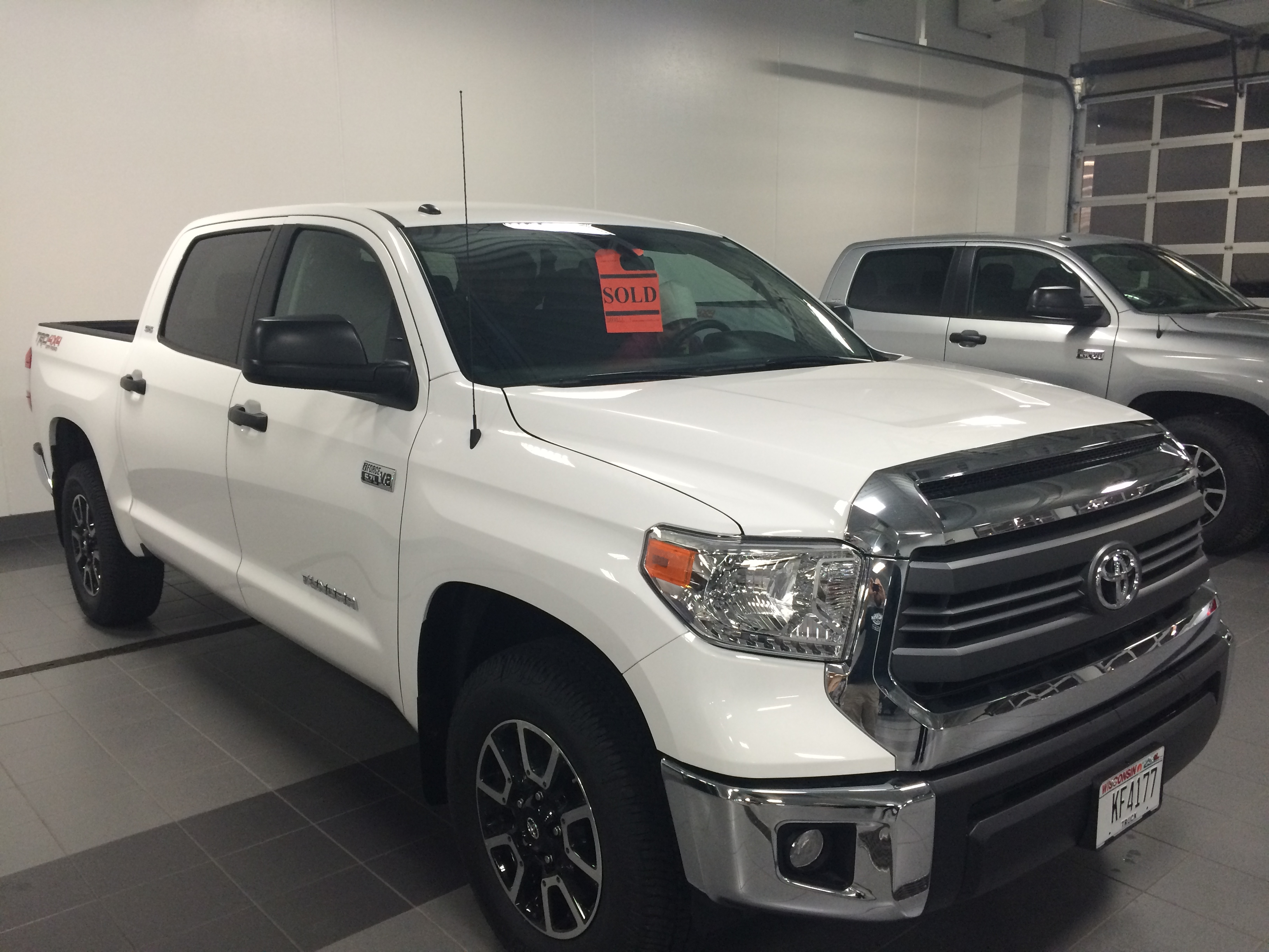 2014 Toyota Tundra Crew Max White